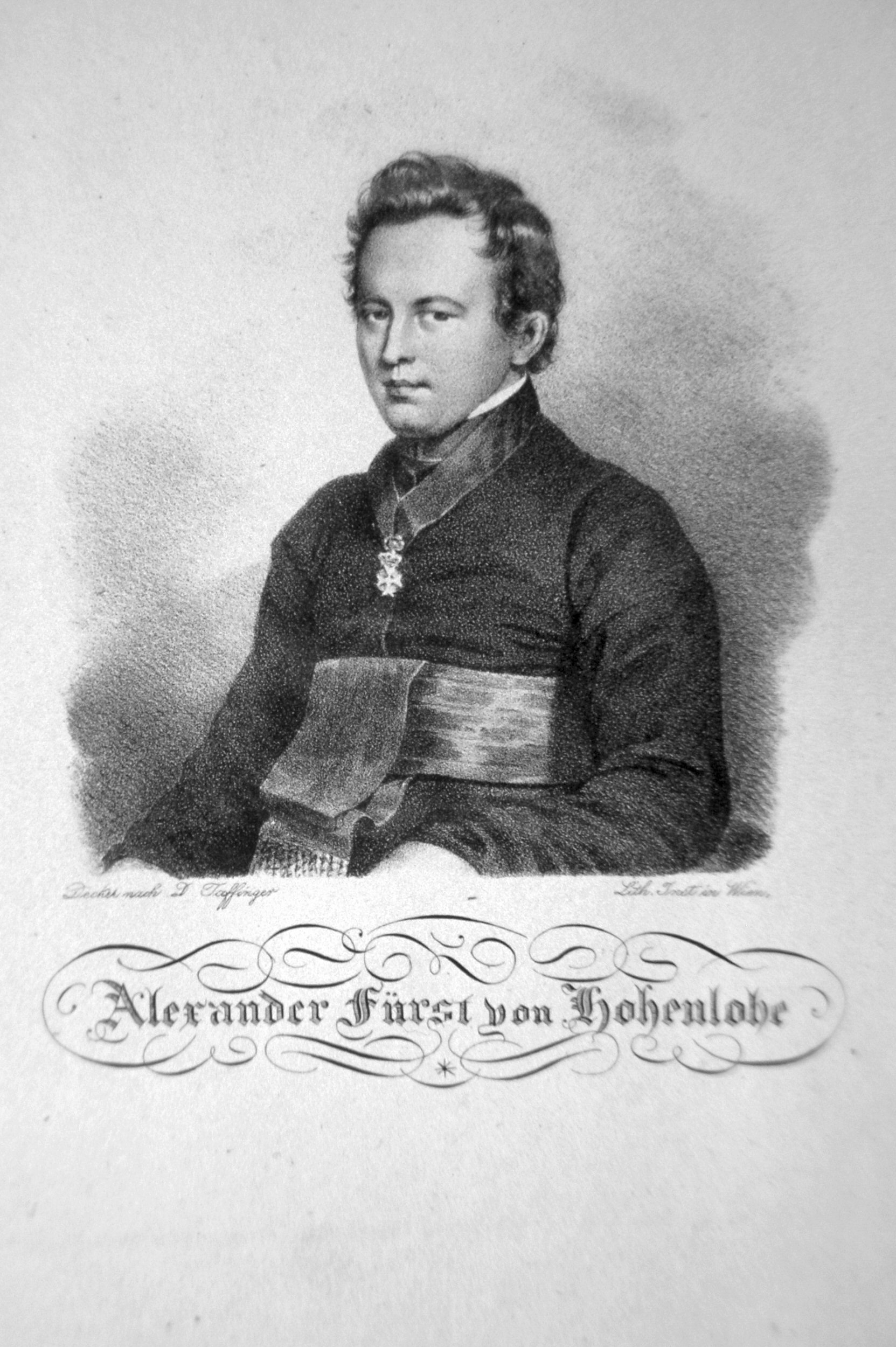 Prince Leopold Alexander Franz Emmerich zu Hohenlohe-Waldenburg-Schillingsfürst (1794-1849), Priest, miracle-worker, bishop Lithograph by Johann Stephan Decker, about 1825